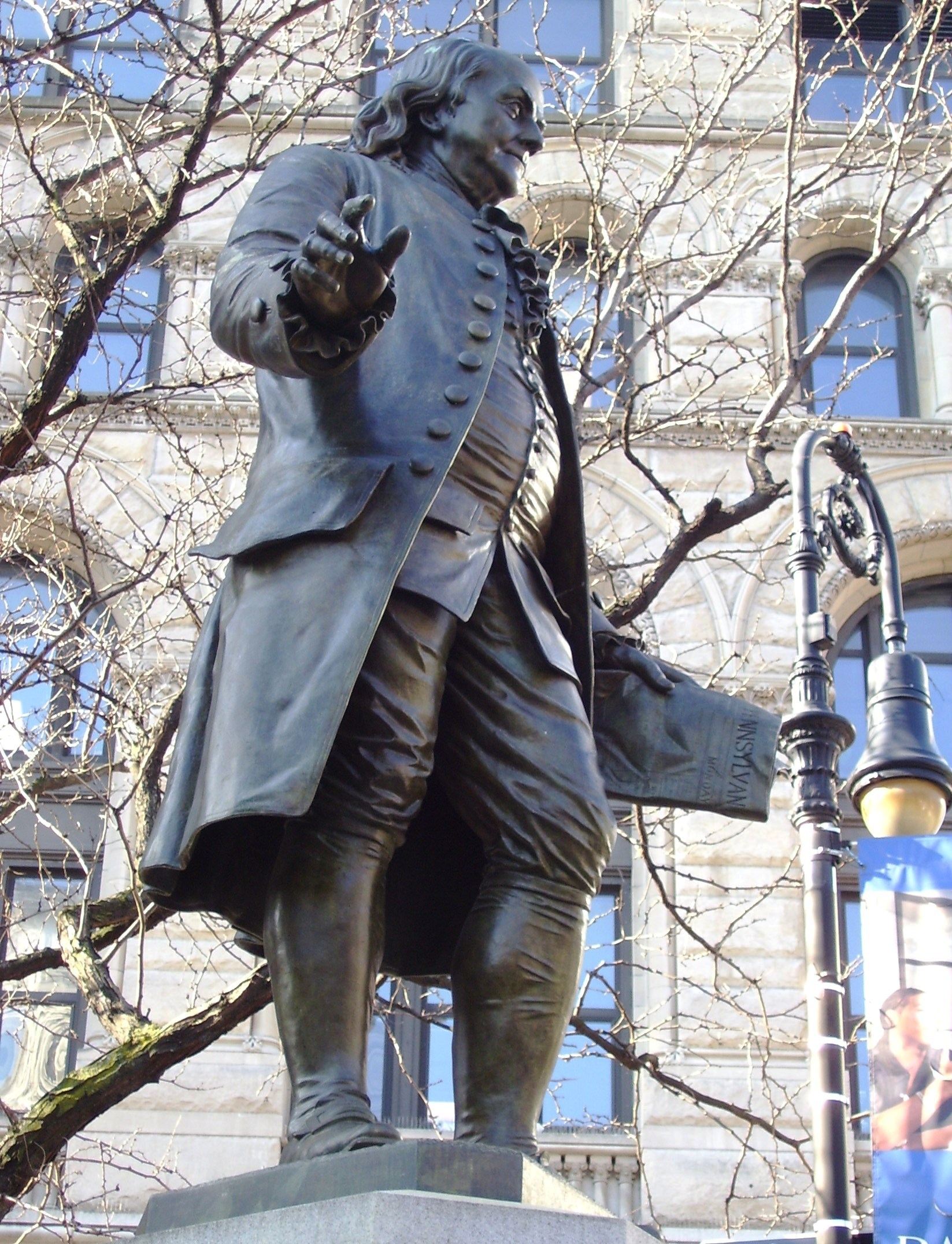 A statue of Benjamin Franklin which stands across from the New York Times Building at 41 Park Row at Spruce Street in the Financial District of Manhattan, New York City. The plaza it's located in was once known as "Printing House Square" due to the offices and presses of numerous newspapers which were situated in the area. Franklin is holding a copy of his Pennsylvania Gazette. The statue's pedestal says: "Benjamin Franklin / 1706-1790 / Printer Patriot Philosopher Statesman / Presented by Albert De Groot to the Press and Printers of New York City / Unveiled January 17, 1872 / Ernst Plassman, sculptor"